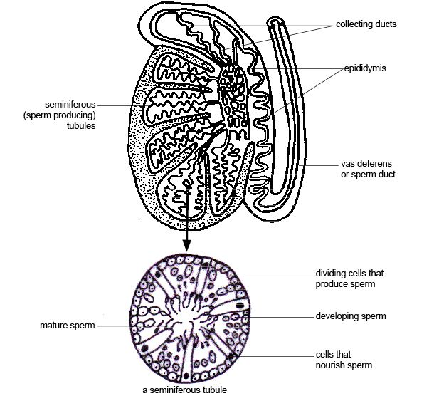 By Ruth Lawson. Otago Polytechnic.